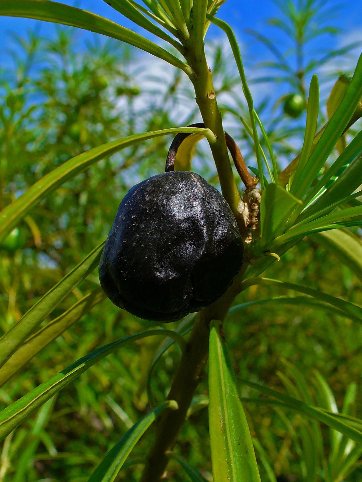 Yellow Oleander, Ripe fruit; Jardín Botánico Canario Viera y Clavijo, Tafira Alta, Gran Canaria, Spain.